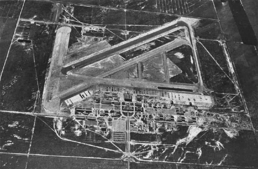 Aerial view of the U.S. Naval Air Station Los Alamitos, California (USA), in the 1940s.